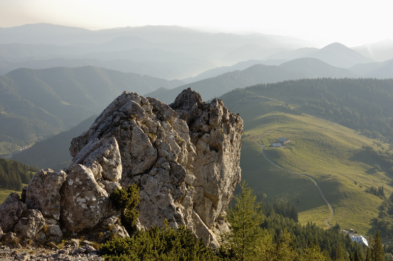 Fadensteig